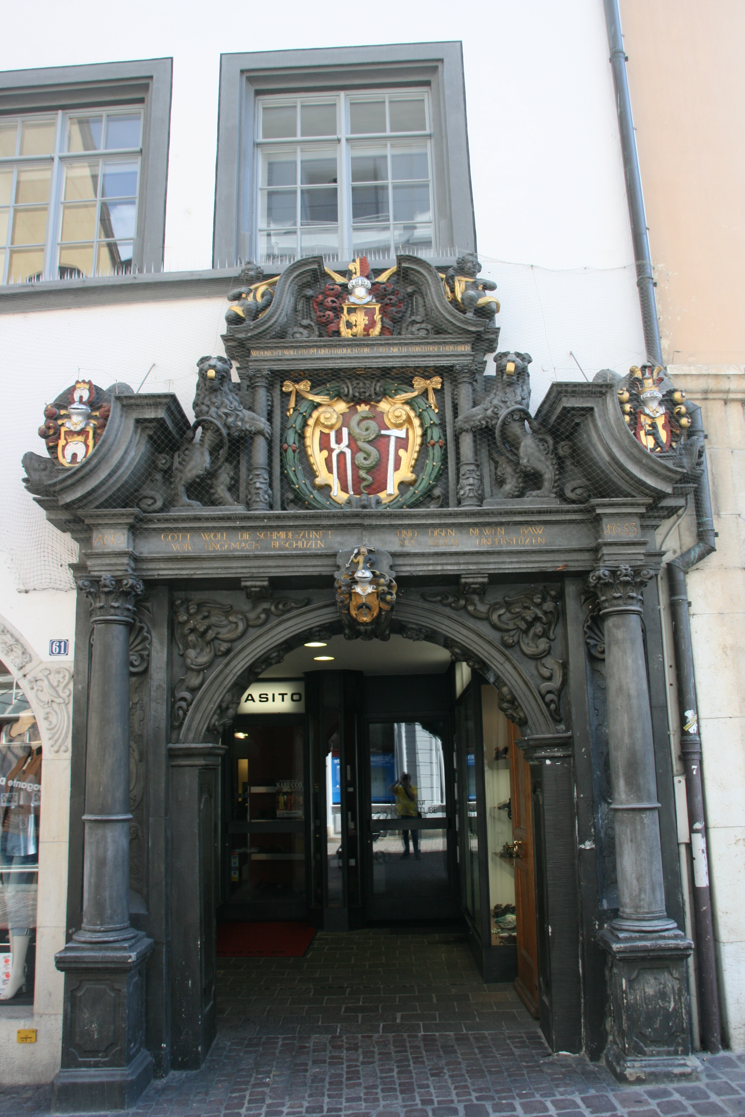 Schmiedstube Schaffhausen